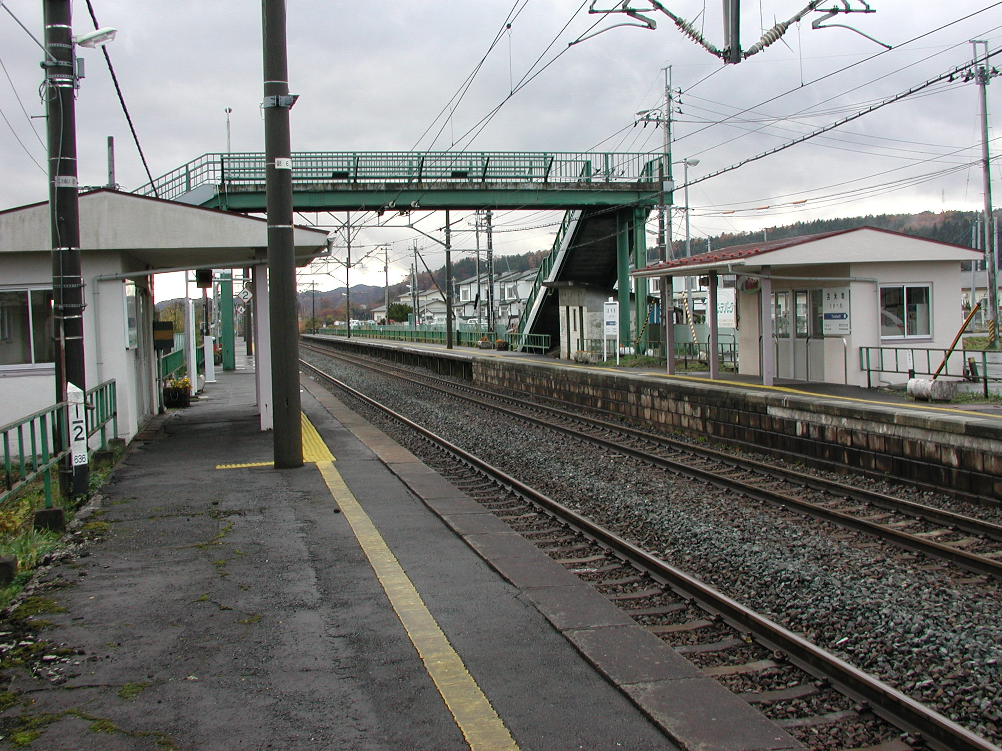 Tomabechi Station in Home